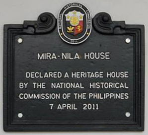 Mira-Nila House NHCP Historical Marker